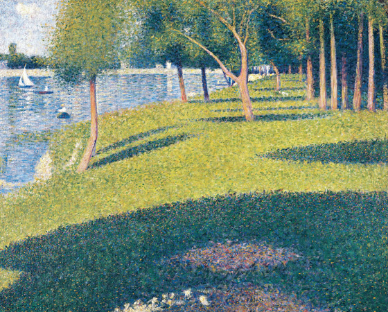 Sunday on La Grande Jatte